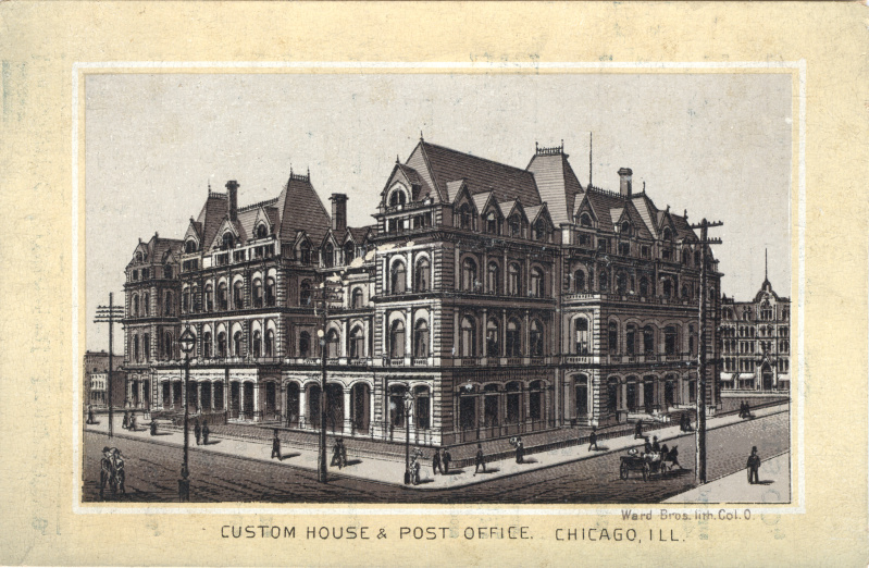 United States Custom House, Court House, and Post Office. A trading card from the Jersey Coffee series by the Dayton Spice Mills Co., Dayton, Ohio. Marked "Ward Bros. lith. Col. O." Persistent URL: Subject (TGM): Coffee industry; Government facilities; Administrative agencies; Premiums; Post offices; Customhouses; Photolithographs; Message: Keywords